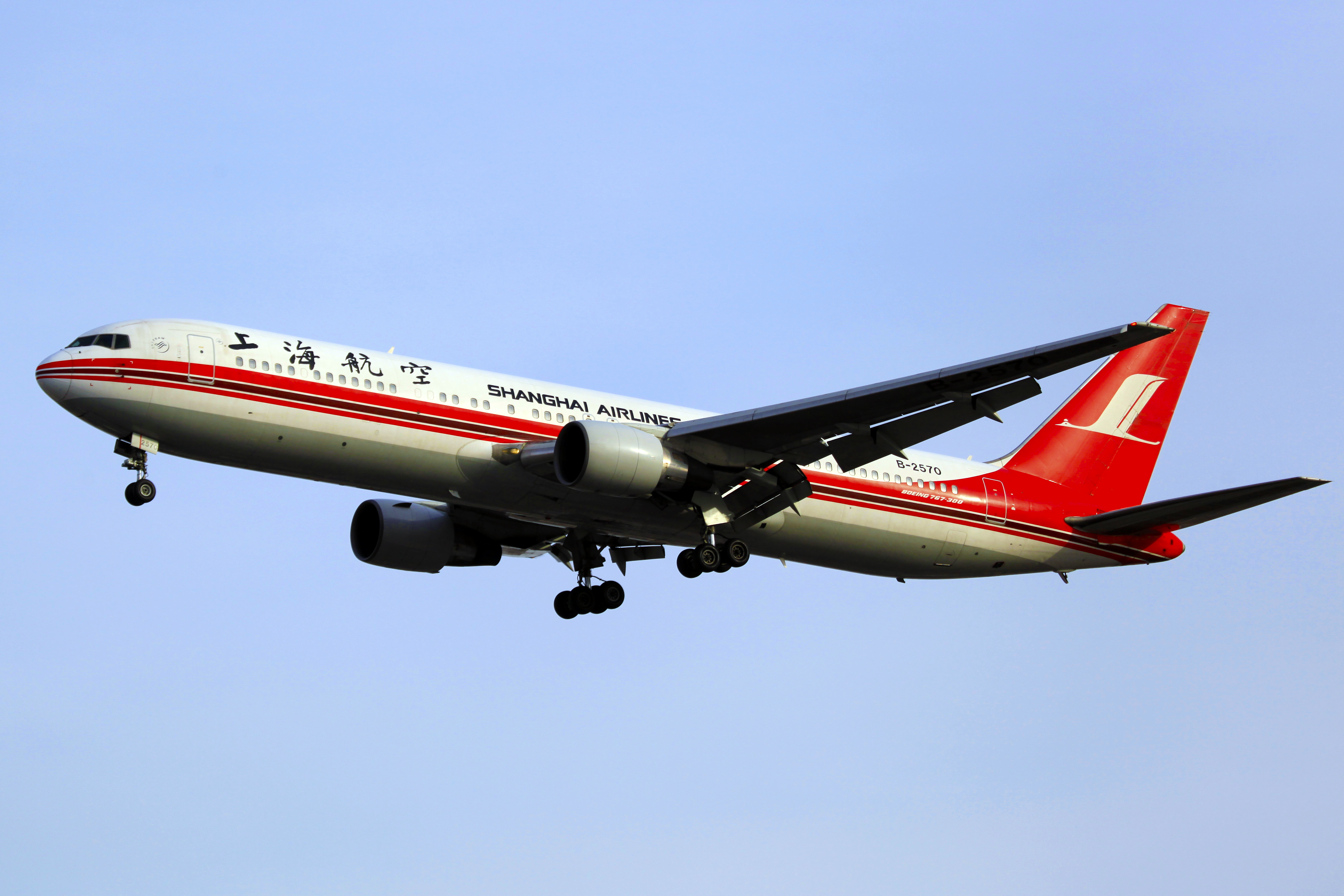 B-2570 | Shanghai Airlines | Boeing 767-36D | Shanghai Hongqiao International Airport [SHA]